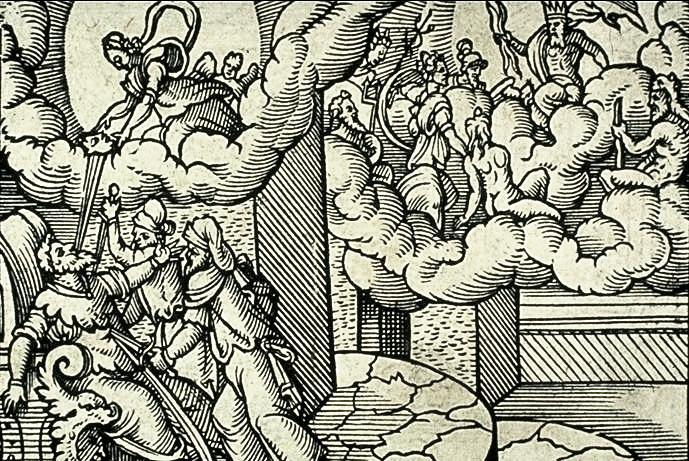 Deification of Julius Caesar. Engraving by Virgil Solis for Ovid's Metamorphoses Book XV, 745-850.